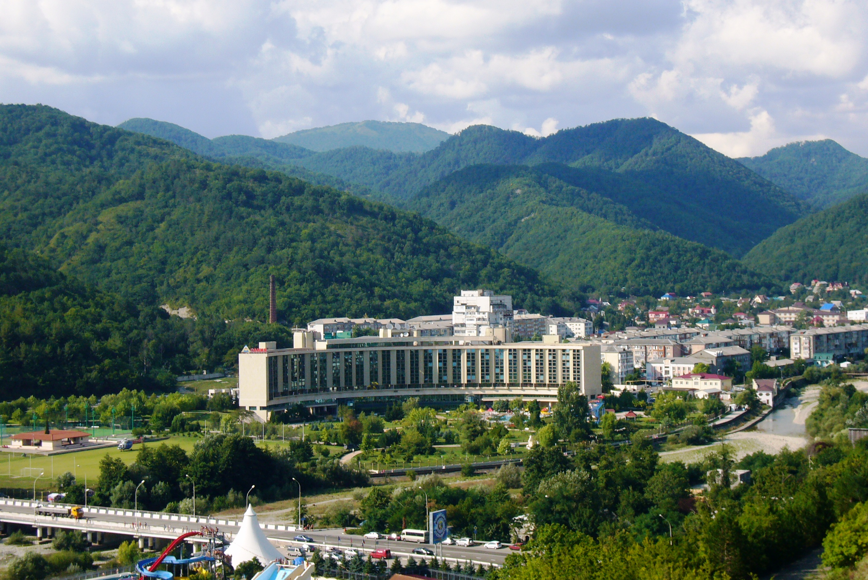 View of Nebug, Tuapse Raion, Krasnodar Krai, Russia. Molnia Hotel (****) in the front.